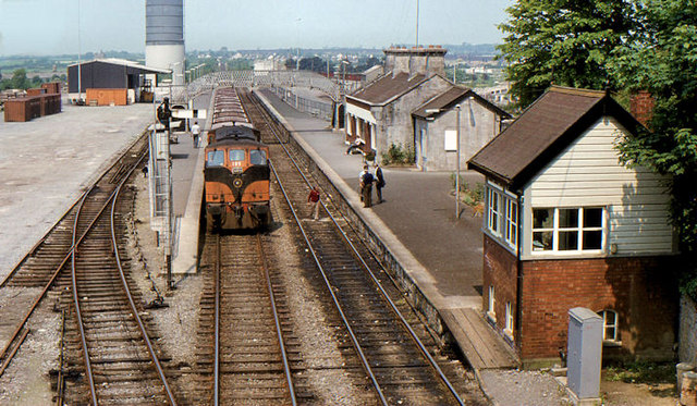 Tullamore station (1982):: OS grid N3324 :: Geograph Ireland - photograph every grid square! Tullamore station, between Portarlington and Athlone, on the Dublin � Galway/Mayo line opened in 1859, on the completion of the line from Tullamore to Athlone. It replaced two earlier, temporary stations used after the railway...